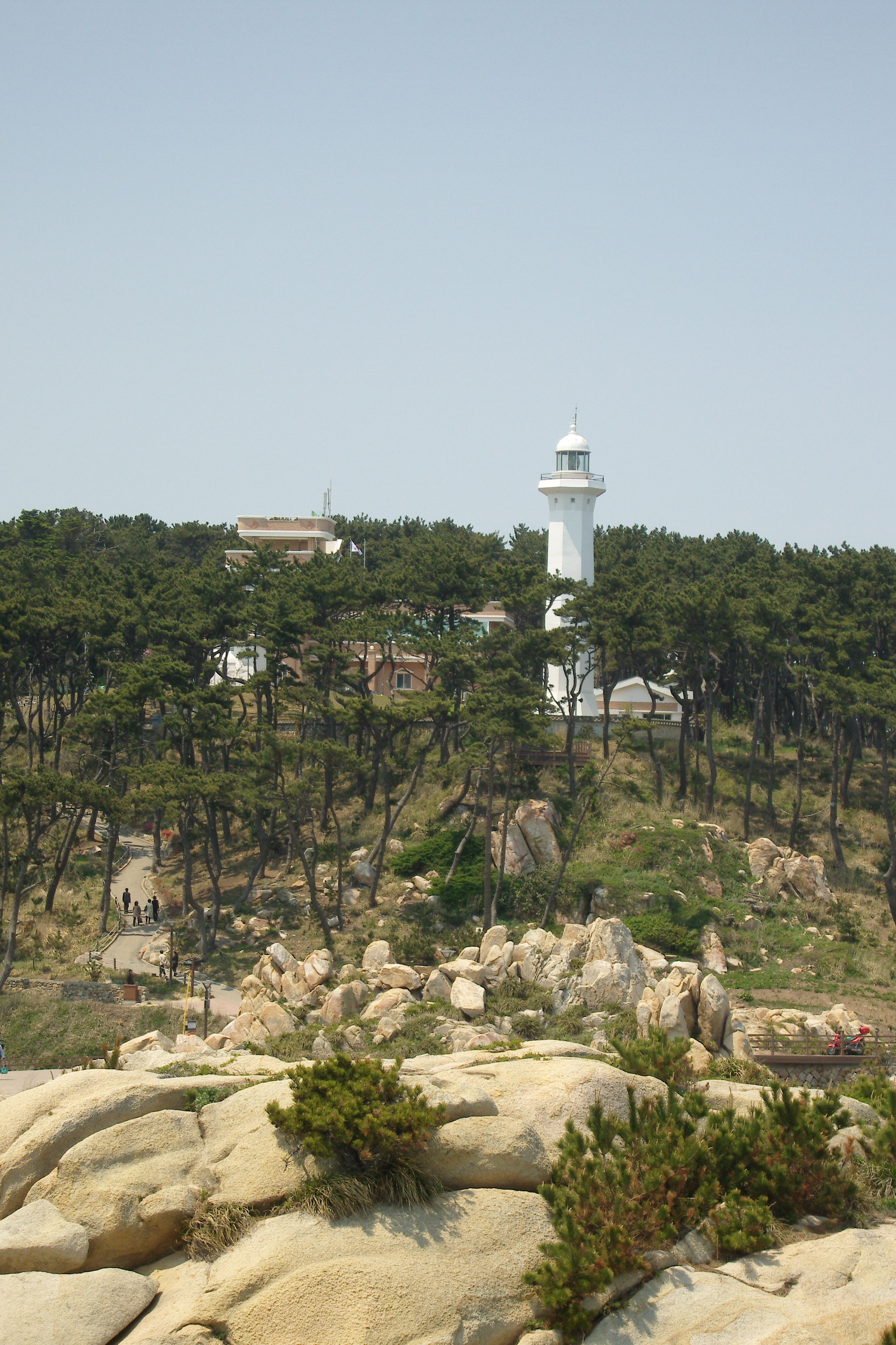 Ulgi Light House